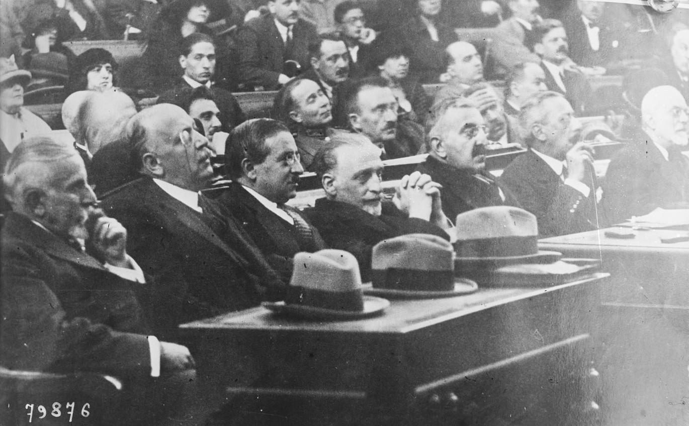 The bench of the accused at the Trial of the Six: left to right, Admiral Goudas, Georgios Baltatzis, General Xenophon Stratigos, former Prime Ministers Dimitrios Gounaris and Nikolaos Stratos, Nikolaos Theotokis, and former Prime Minister Petros Protopapadakis